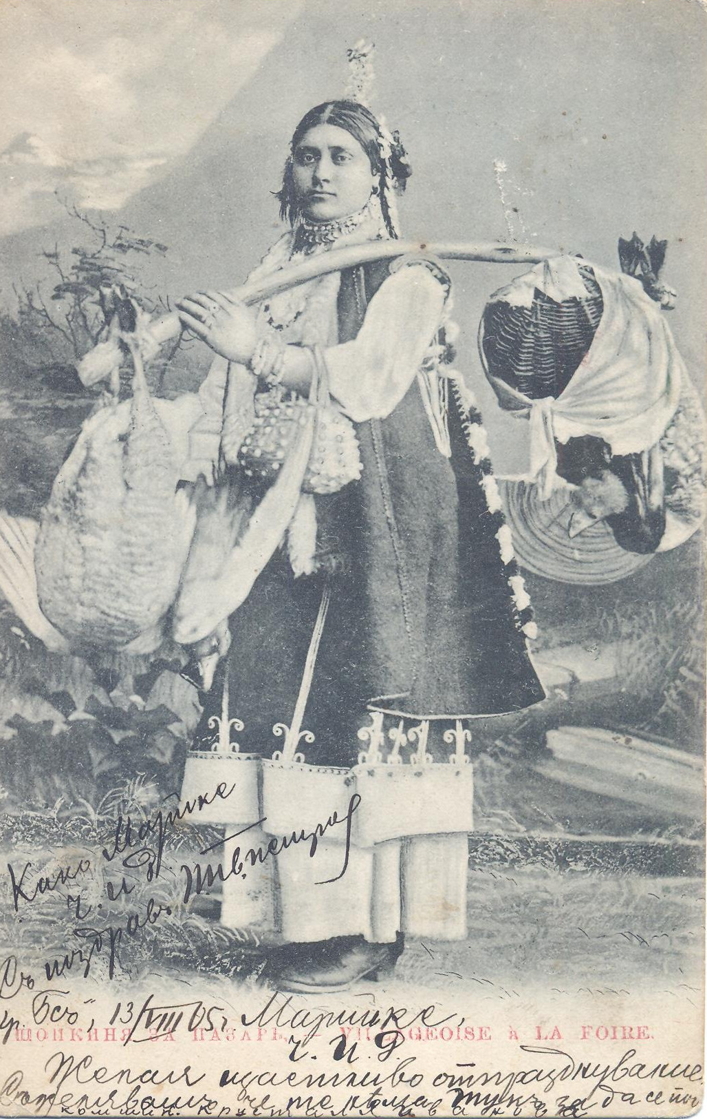 Bulgarian woman-shop